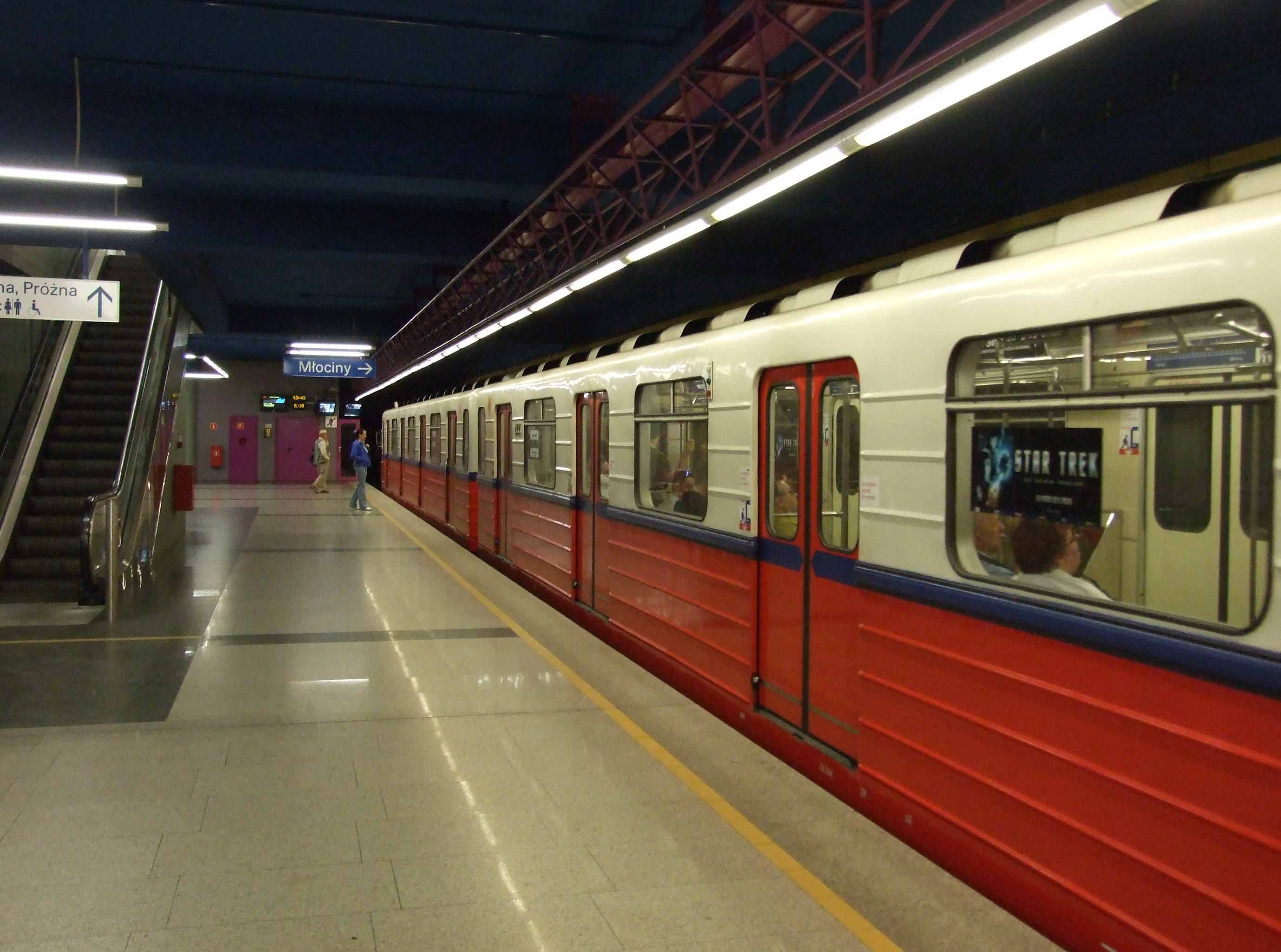 Śródmieście metro station in Warsaw, Mazowskie, PLhelp